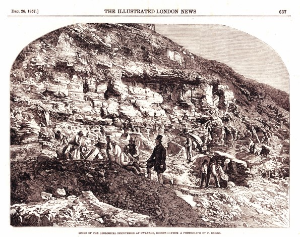 Sketch of Beckles Pit taken from a photograph. "Scene of the Geological Discoveries at Durlston Bay near Swanage, Dorset" as published in the Illustrated London News on 26 December 1857. Samuel Husbands Beckles is the character in the top hat